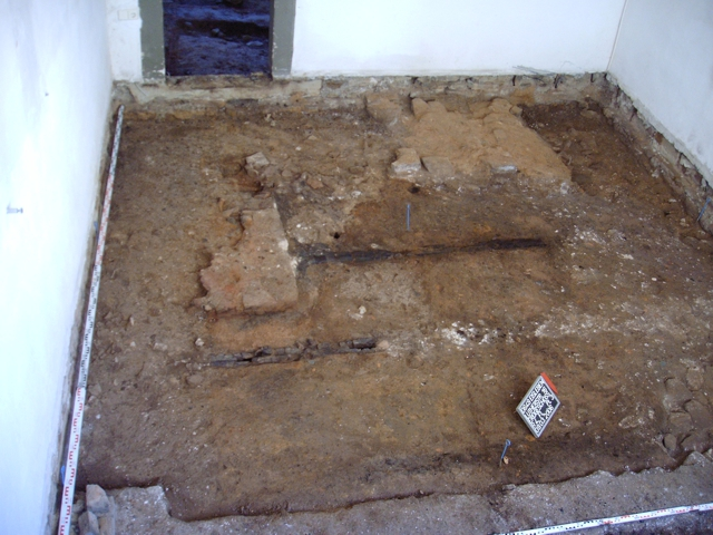 Remains of the original house of birth of Martin Luther in Eisleben, Germany. The building was destroyed by a fire in 1689 AD. In 1693 AD the town's government built a bigger and more prominent building at the same place. In 2006 an excavation by the Landesamt fuer Denkmalpflege und Archaeologie Sachsen-Anhalt led by Ch. Matthes uncovered carbonized beams and clay of the flooring of the old building. (Photo by Ch. Matthes)